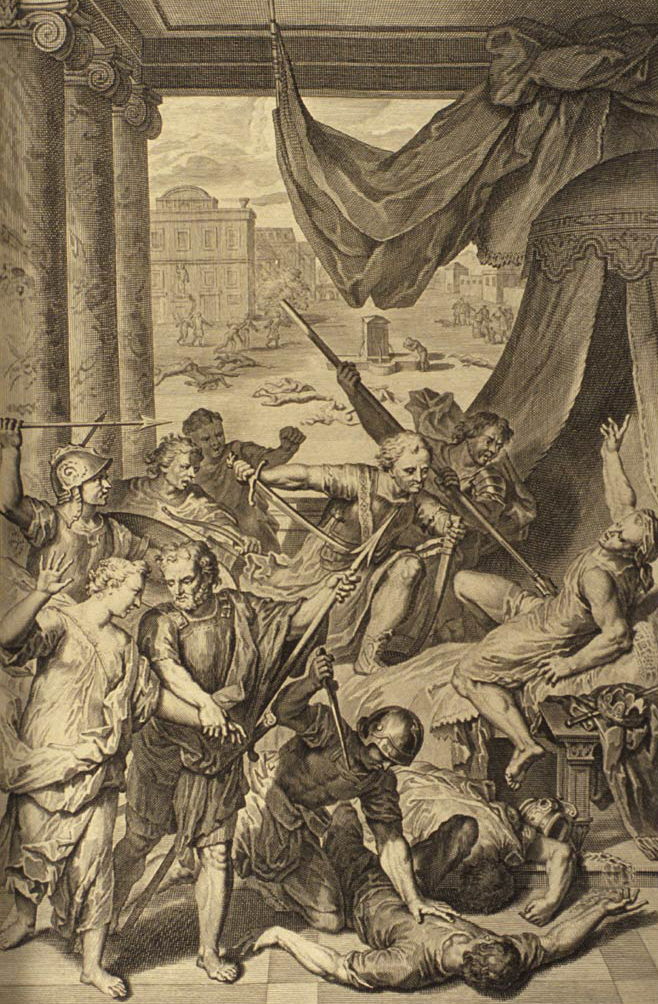 Simeon & Levi slay the Sichemites (Shechemites); as in Genesis 34:25-29: "And it came to pass on the third day, when they were sore, that two of the sons of Jacob, Simeon and Levi, Dinah's brethren, took each man his sword, and came upon the city boldly, and slew all the males. And they slew Hamore and Shechem his son with the edge of the sword, and took Dinah out of Shechem's house, and went out. The sons of Jacob came upon the slain, and spoiled the city, because they had defiled their sister. They took their sheep, and their oxen, and their asses, and that which was in the city, and that which was in the field, And all their wealth, and all their little ones, and their wives took they captive, and spoiled even all that was in the house."; illustration from the 1728 Figures de la Bible; illustrated by Gerard Hoet (1648-1733) and others, and published by P. de Hondt in The Hague; image courtesy Bizzell Bible Collection, University of Oklahoma Libraries